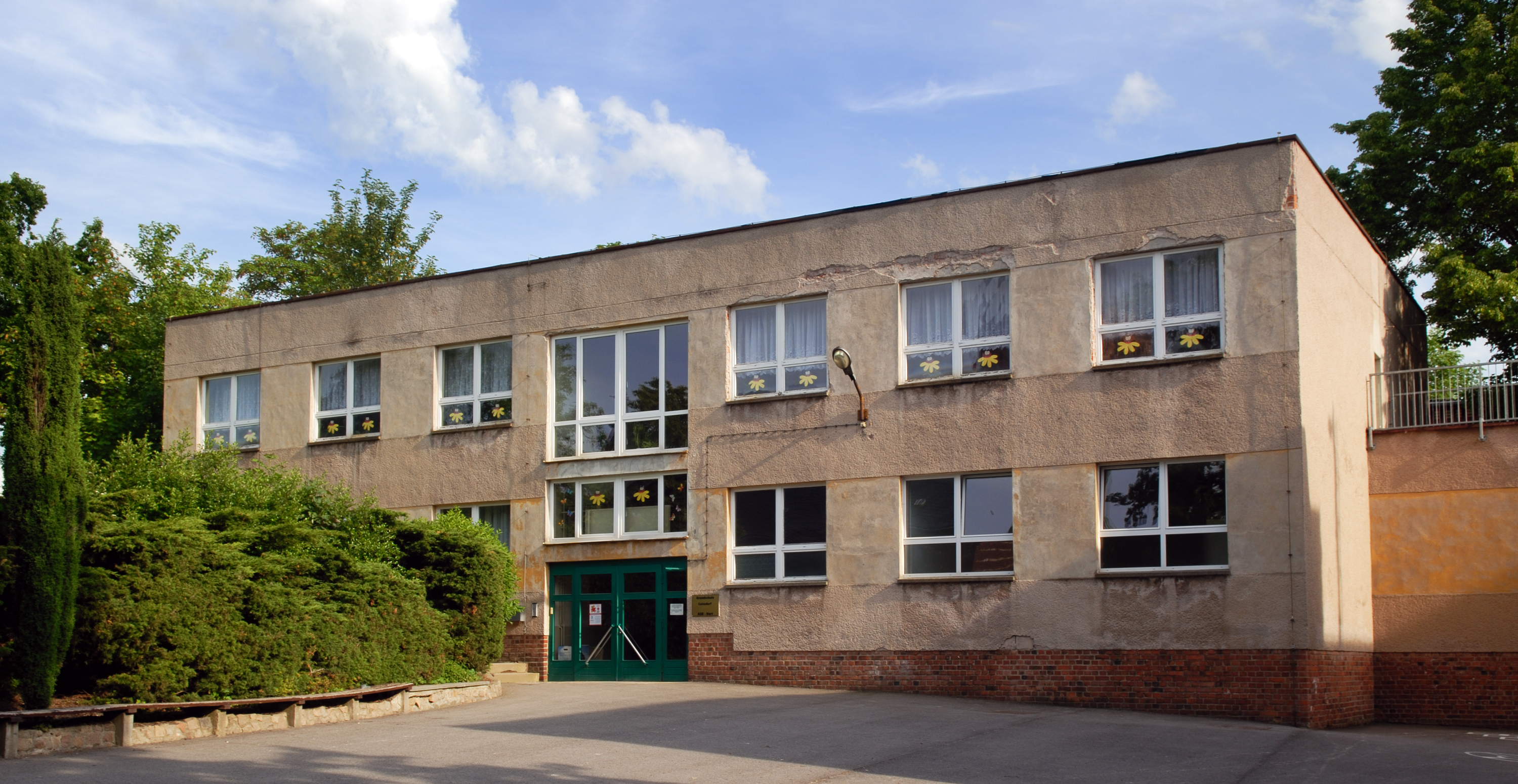 This image shows the new primary school in the district Cainsdorf in Zwickau, Germany.